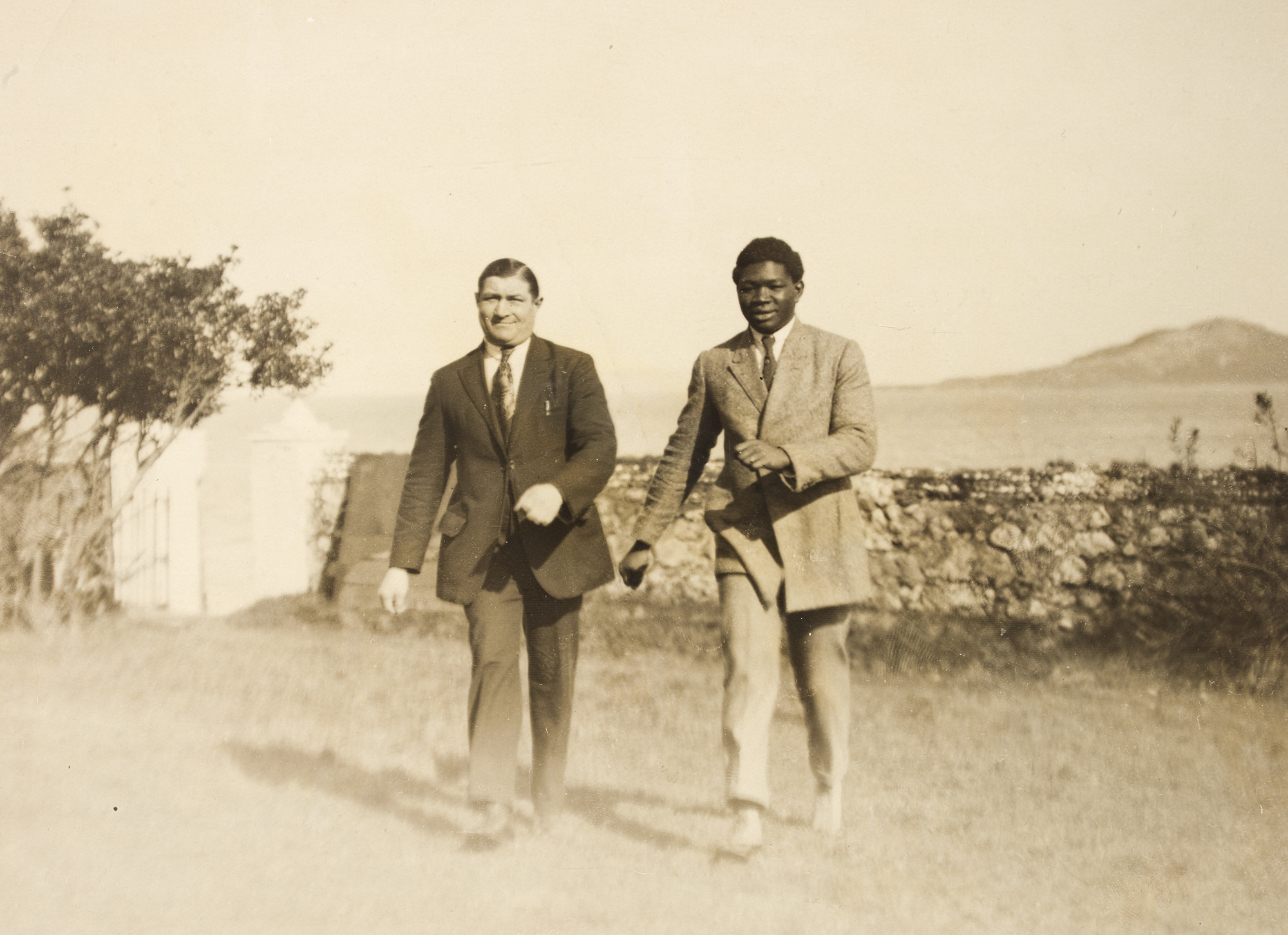 This is Battling Siki from Senegal, World Light Heavyweight Boxing Champion, with his sparring partner, Frenchman Eugene Stuber. Siki was in Dublin to fight "Bold" Mike McTigue (aka "Methuselah") who hailed from Kilnamona, Co. Clare. The two men are pictured outside the Claremont Hotel, Howth, Co. Dublin. The fight was on Saturday, 17 March 1923 (St. Patrick's Day) at La Scala Theatre, Dublin. McTigue won on points. Irish Times reporting on Monday 19 March was a little sniffy about the quality of the boxing: "There was an almost total absence of those thrills and exciting incidents one is wont to associate with contests of such importance. Indeed, there was monotonous similarity about the majority of the twenty rounds; one man, Siki, doing all the leading - without, however, inflicting much damage - and the other boxing on the retreat. The black's bustling tactics were in striking contrast to those of his opponent, who, for the most part, met the fierce onsloughts [sic] of the burly Senegalese with amazing sang froid, and McTigue's wonderful defence and dexterity in avoiding punishment were object lessons in themselves." Date: March 1923 NLI Ref.: HOG212